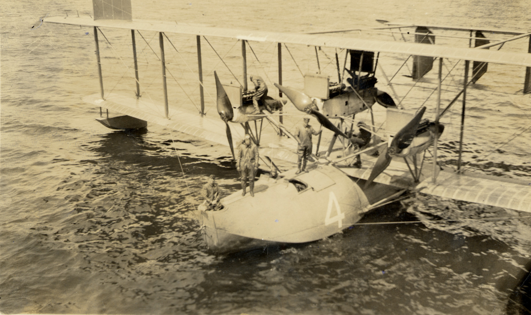 Description: The fourth of a series of Navy flying boats built for transoceanic flight, the NC-4 took off from Newfoundland on May 8, 1919, landing at Portugal on May 27, completing the first transatlantic flight. Before the flight, the plane and its crew were in Halifax, Canada, where machinist Pat Carroll wrote a letter to his brother Charles, a corporal with the American Expeditionary Forces in France. Pat asked a member of the NC-4 flight crew to carry the letter and mail it after the flight. When the crew reached Lisbon, Portugal on May 27, they placed that letter in the mail. The letter is now in the collection of the National Postal Museum. Creator/Photographer: Unidentified photographer Medium: Black and white photographic print Culture: American Geography: USA Date: 1919 Collection: U.S. Airmail Service Repository: National Postal Museum Gift line: Gift of Benjamin Lipsner Accession number: A.2008-5